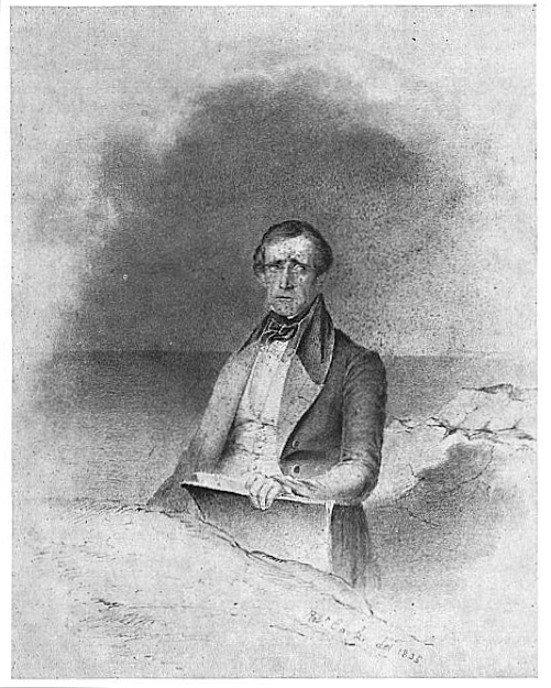 Pencil drawing. Portrait of Fitz Hugh Lane, by Robert Cooke. 1835. Collection: American Antiquarian Society.